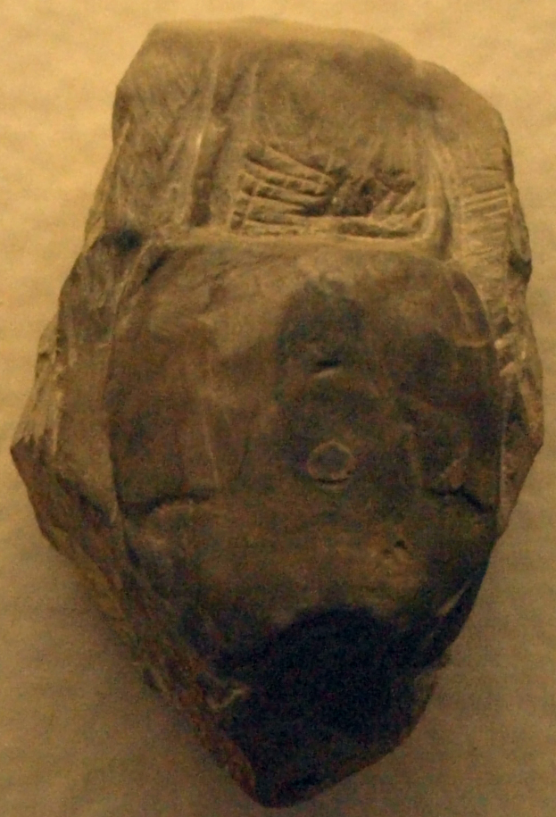 Placocystites forbesianus (de Koninck), thought to be a primitive chordate. Silurian Wenlock series, found at Dudley, Worcestershire.